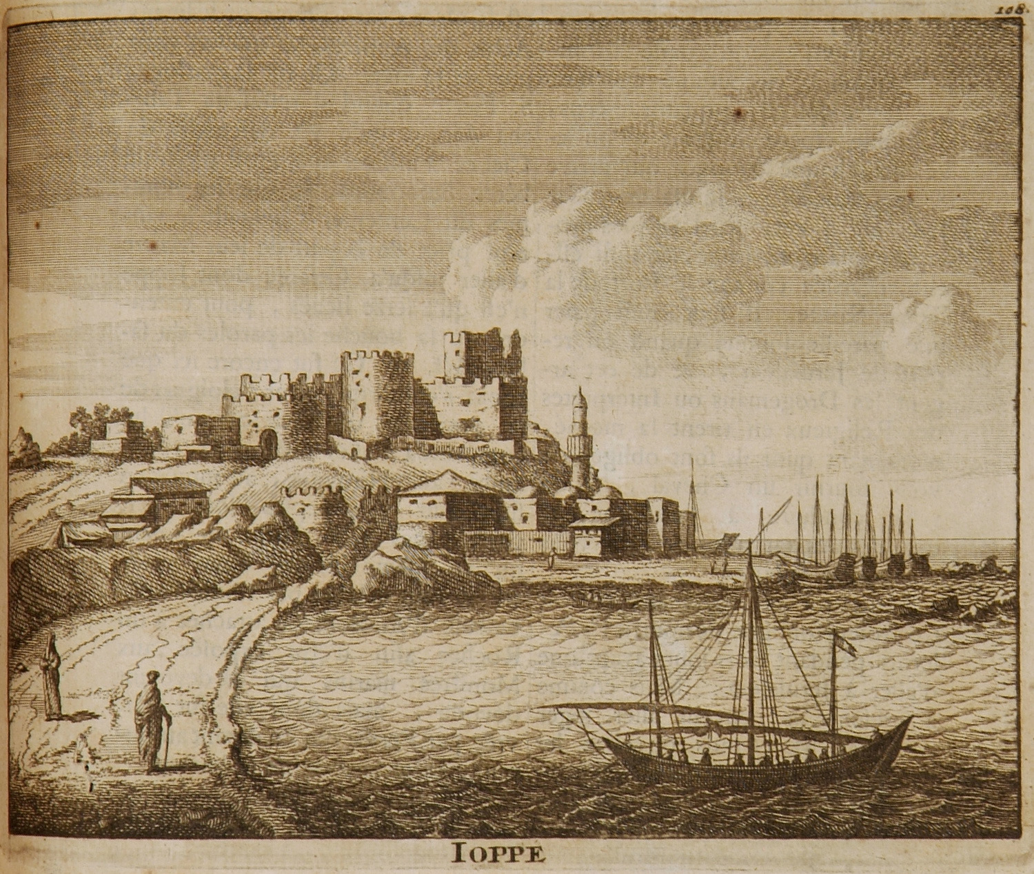 BRUYN, Cornelis de. Voyage au Levant, c’est-à-dire, dans les principaux endroits de l’Asie Mineure, dans les isles de Chio, Rhodes, et Chypre et.c., Paris, Guillaume Cavelier, 1714.